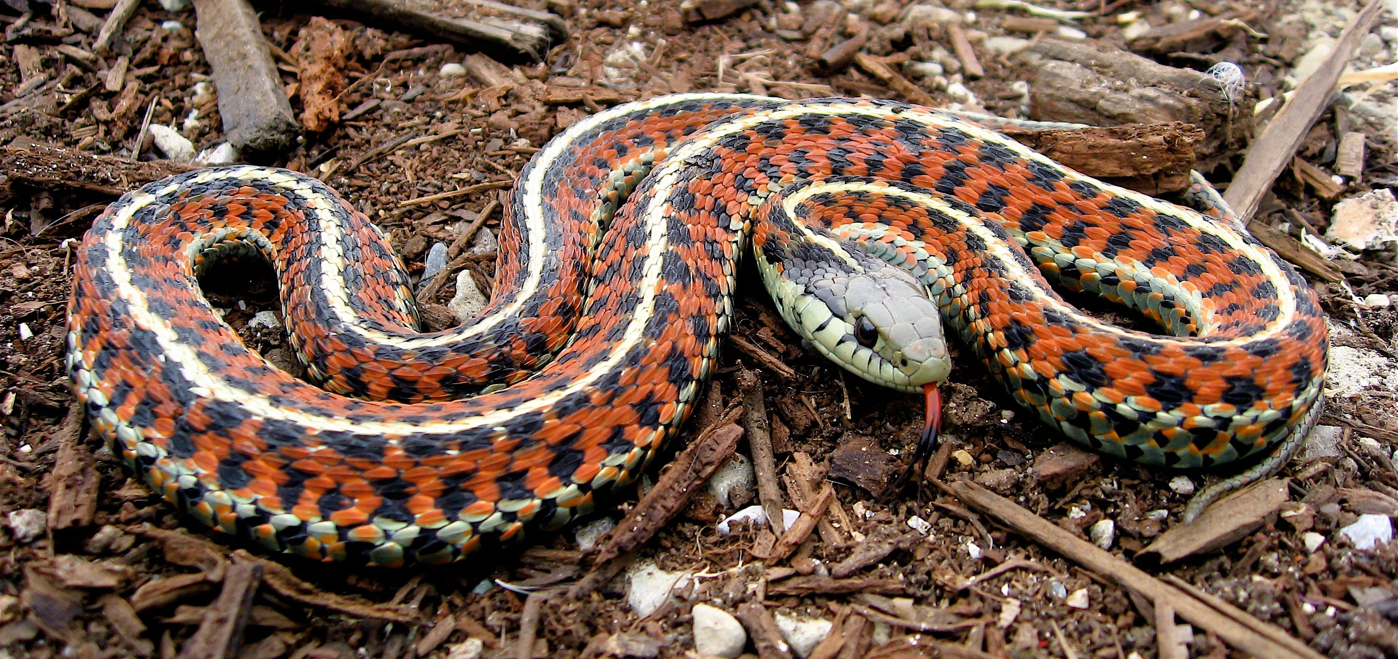 crop of File:Coast Garter Snake.jpg